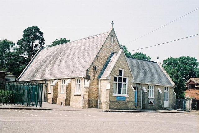 Sandford: church of St. Martin A small church for this parish (called Wareham St. Martin). The Saxon parish church is actually in Wareham, outside the parish boundary.